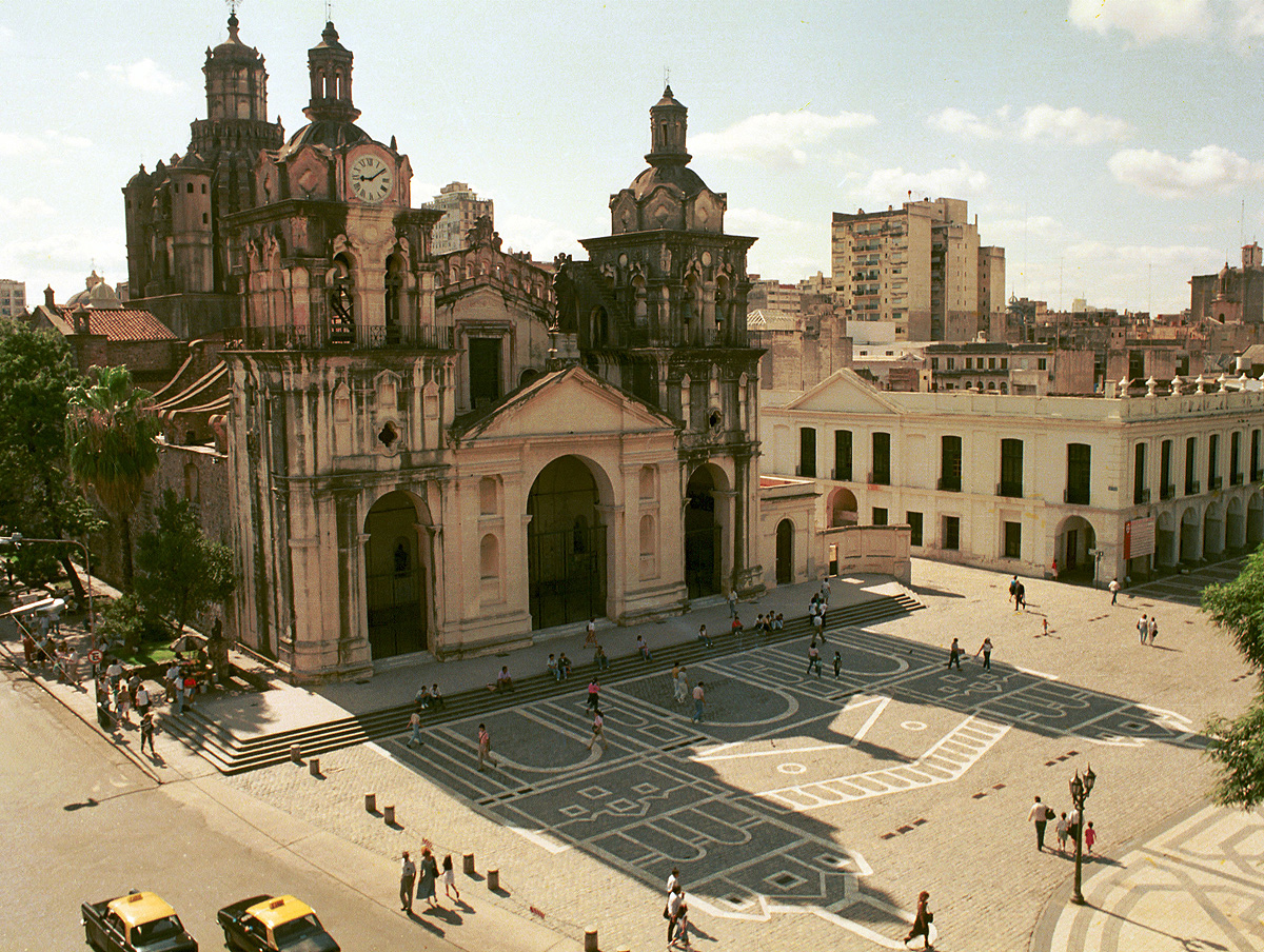 Córdoba Cathedral (Argentina). Decorative stencil in front by architect Miguel Ángel Roca.